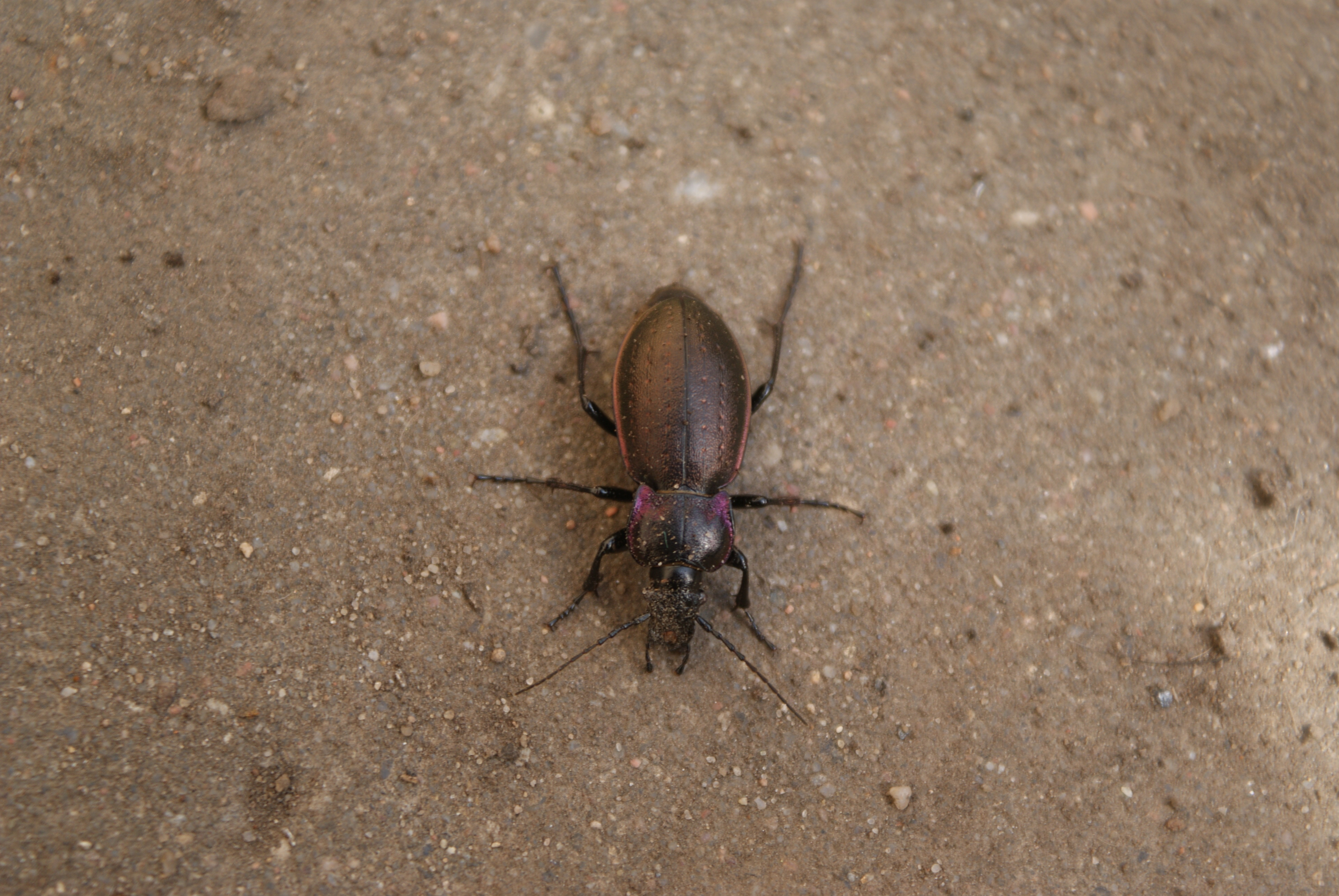 Unidentified Coleoptera in Minsk